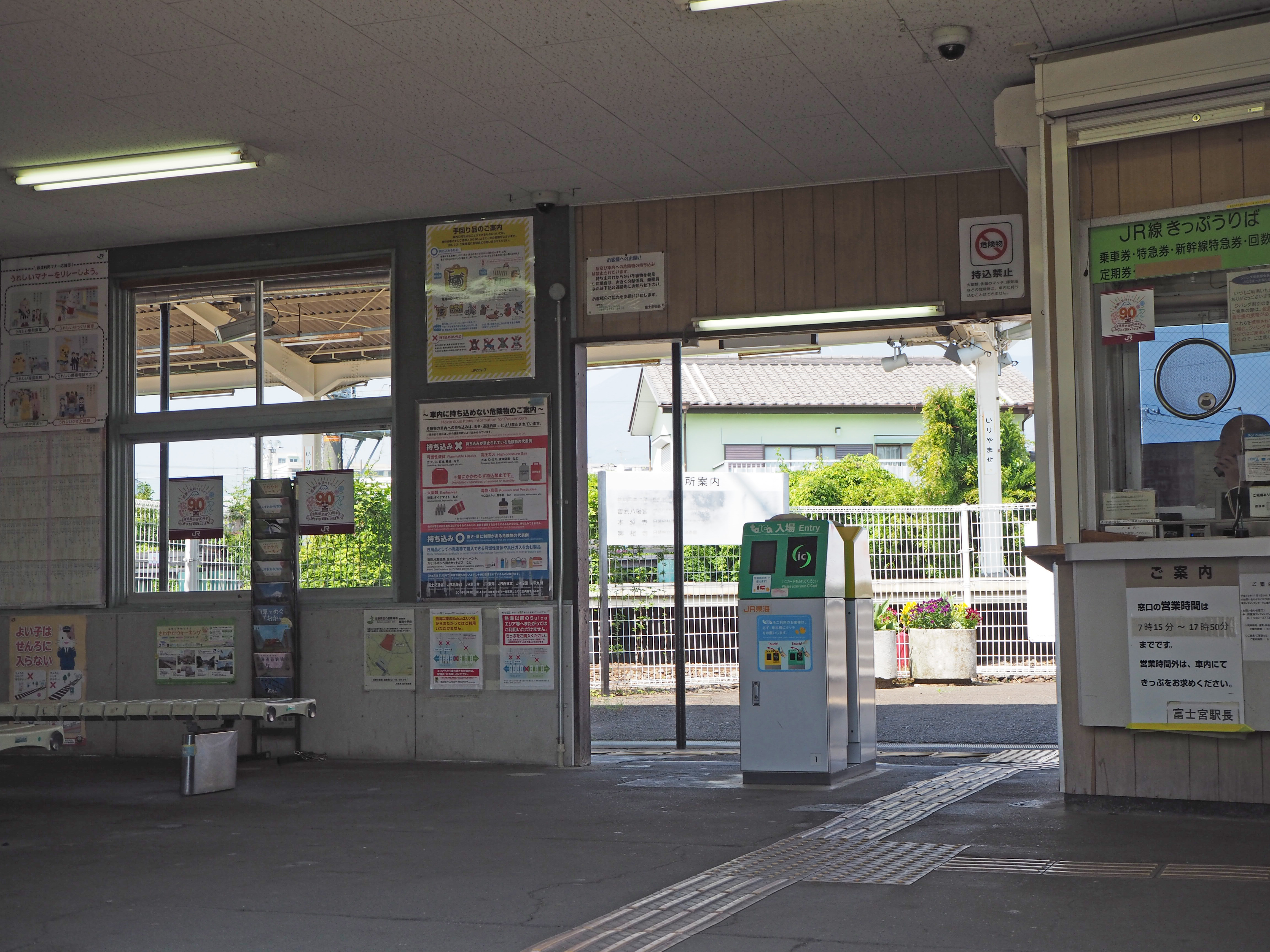 Ticket barriers of Iriyamase Station